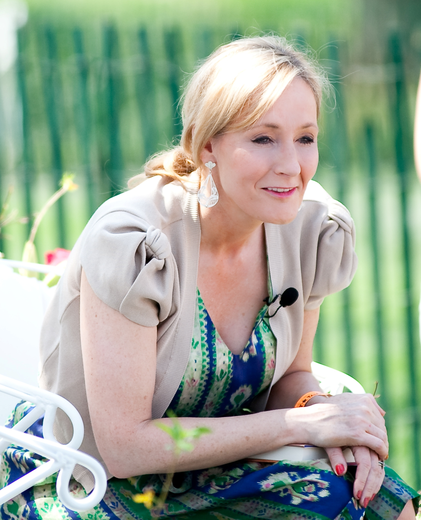 J.K. Rowling reads from Harry Potter and the Sorcerer's Stone at the Easter Egg Roll at the White House in 2010.